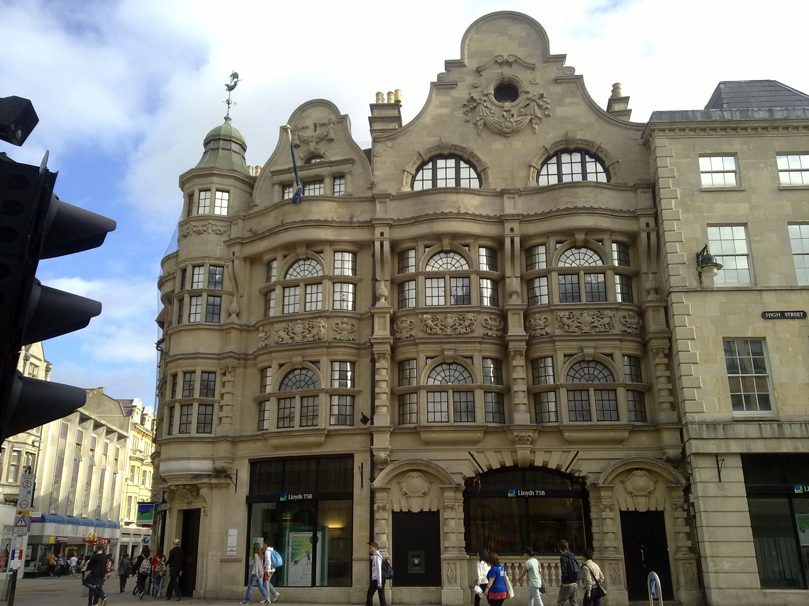 Lloyds (TSB) Bank branch at the far western end of High Street, Oxford.